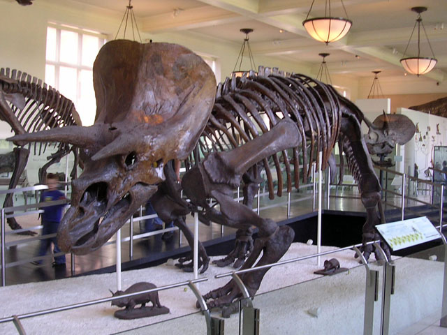 Triceratops•